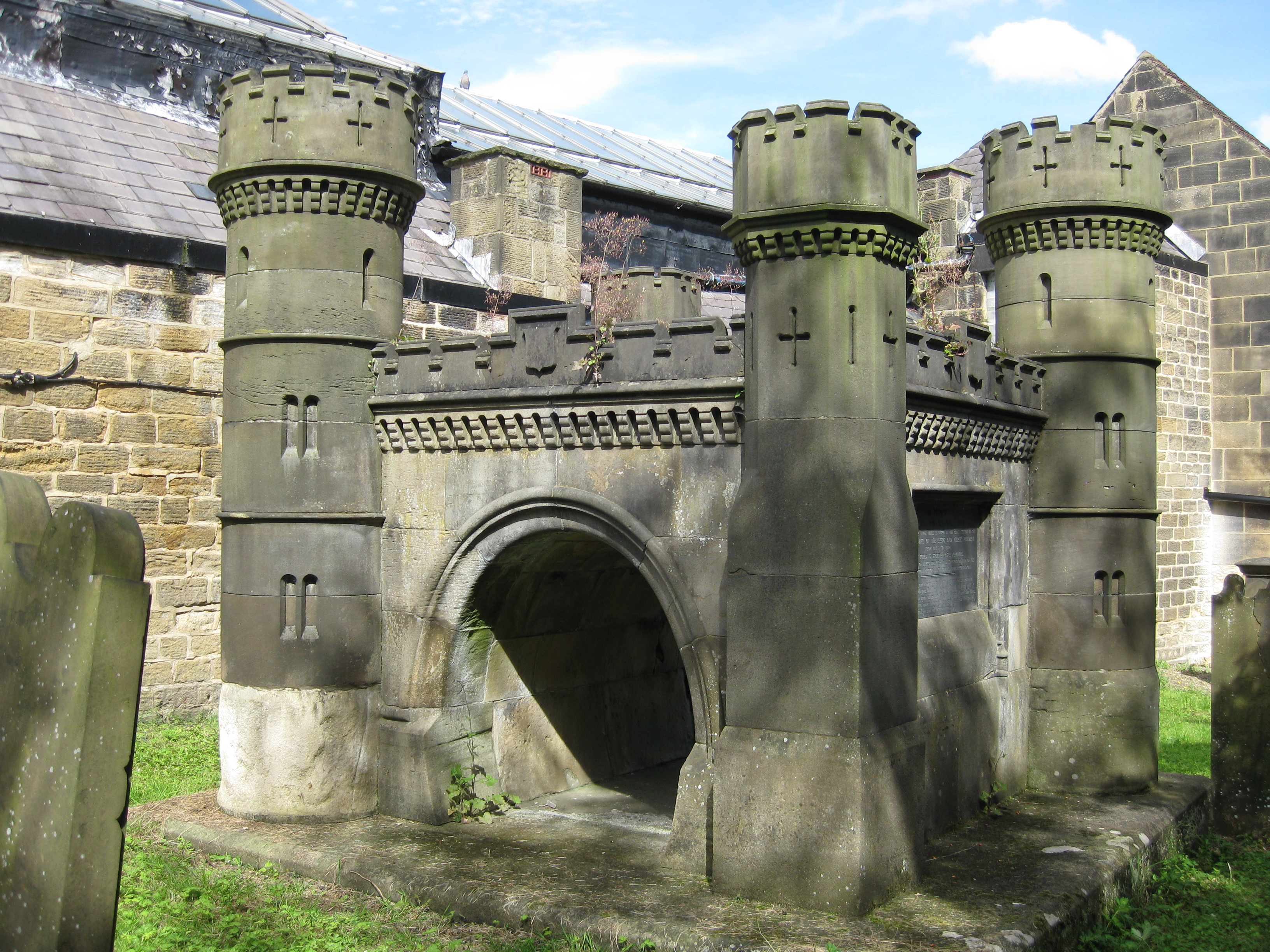 Navvies' Monument, Church Lane, Otley. A model of the Bramhope Tunnel as a memorial to the navvies who died in its construction.